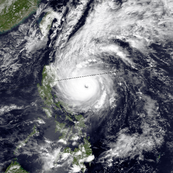 Super Typhoon Elsie on October 18, 1989 with winds of 150 mph and a pressure of 930 mbar.